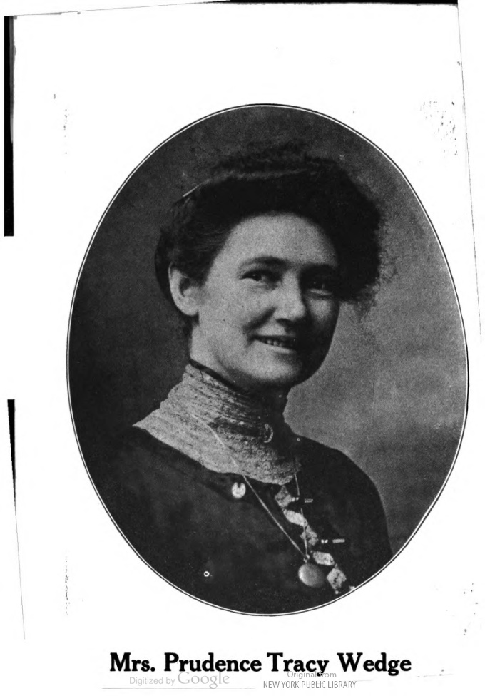 Photo of Prudence Olive Tracy Wedge as found in Frederick Wedge, The Fighting Parson of Barbary Coast (Columbus, Nebraska: Tribune Printing Company, 1912).